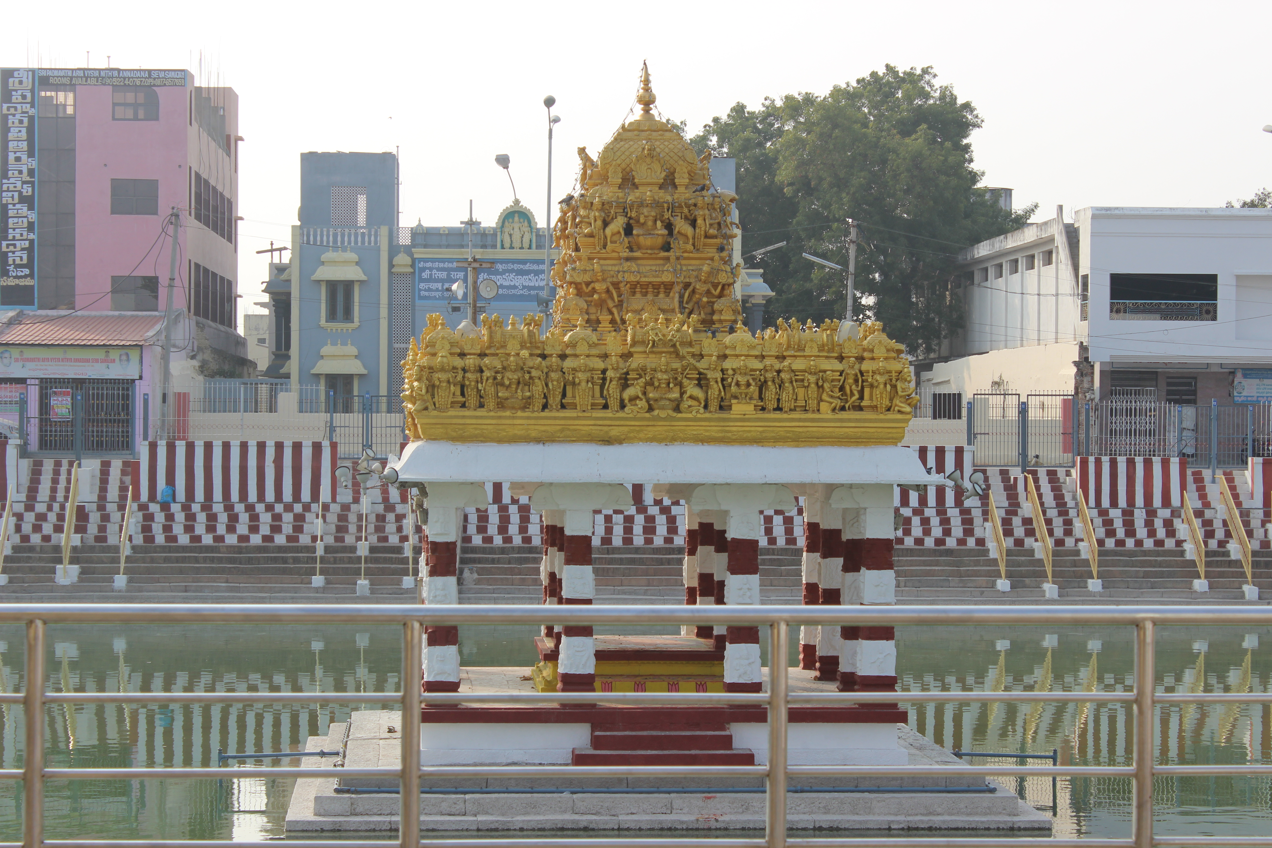 Thiruchanur